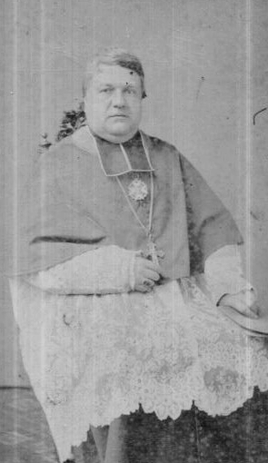 Kardinal Victor-Félix Bernadou (1816-1891)